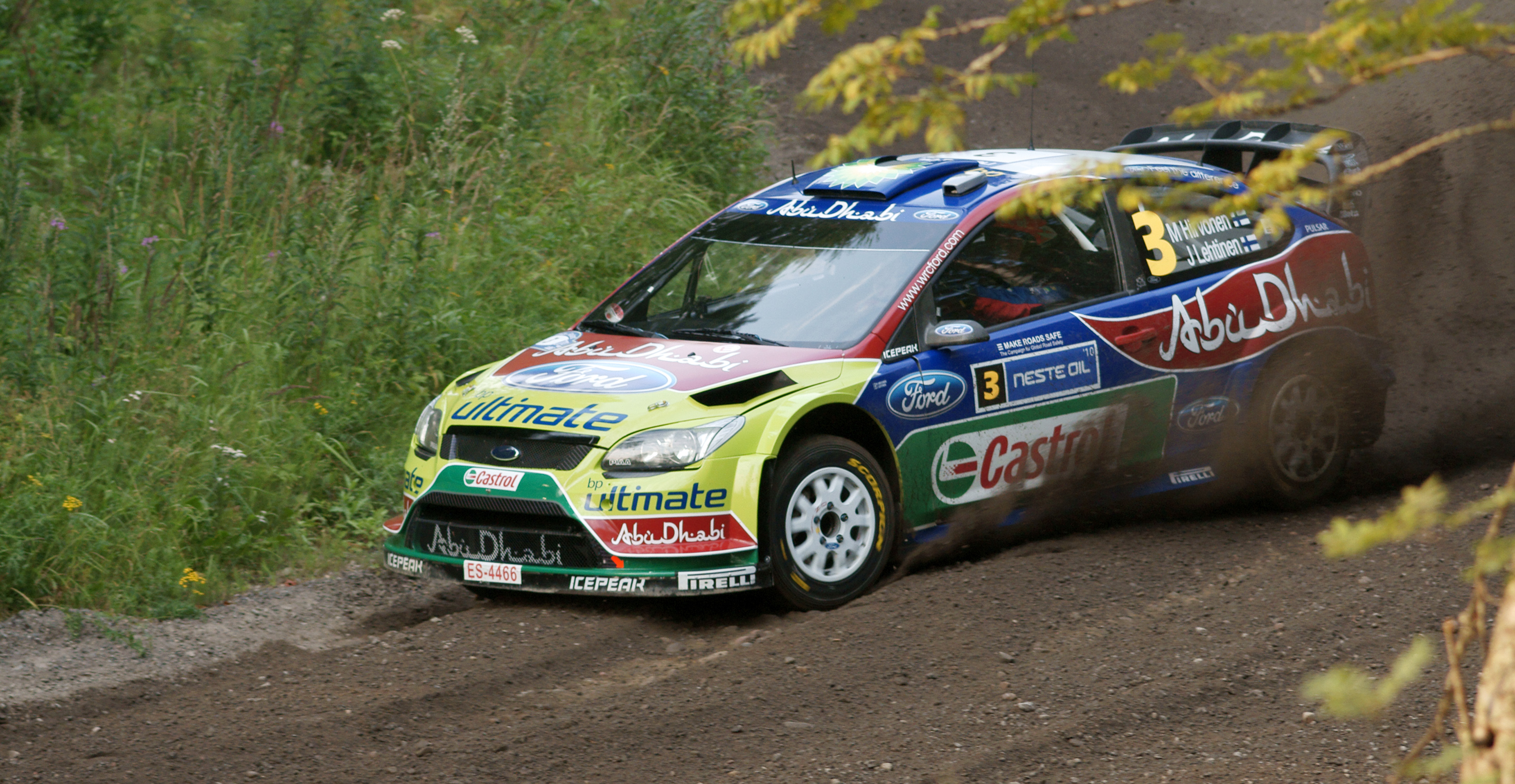 Mikko Hirvonen driving at Laajavuori special stage, Rally Finland 2010.